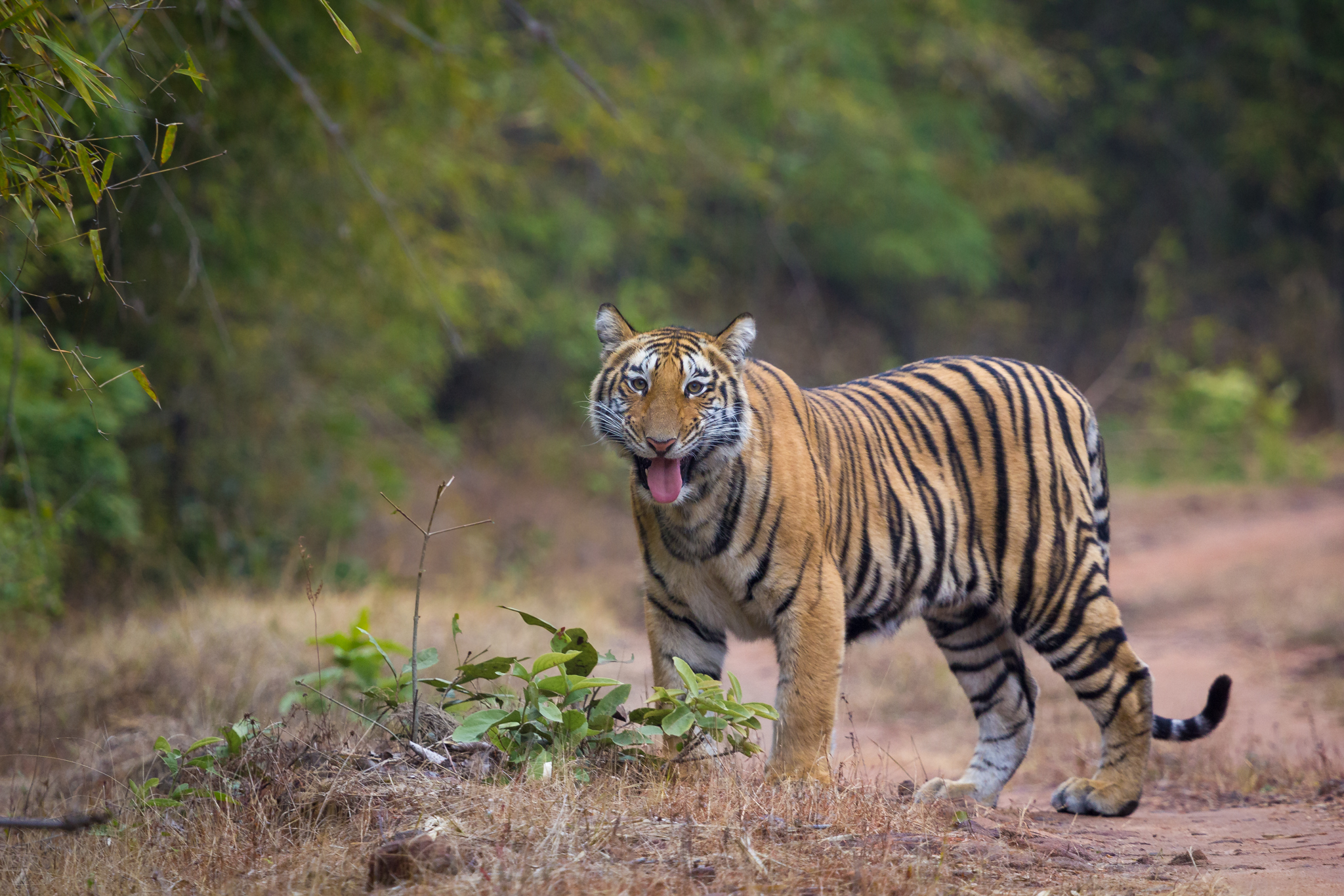 From Bandhavgarh National Park, Madhya Pradesh, India